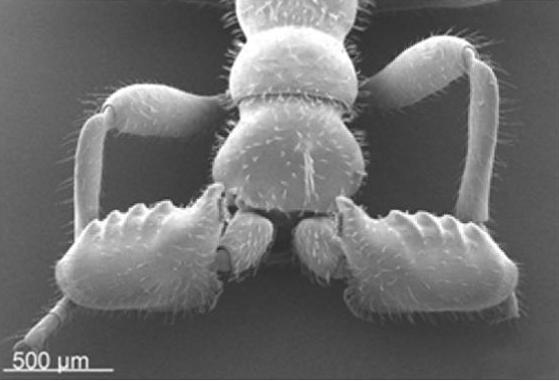 SEM micrographs of Paussus favieri: (a) anterodorsal view of head and thorax